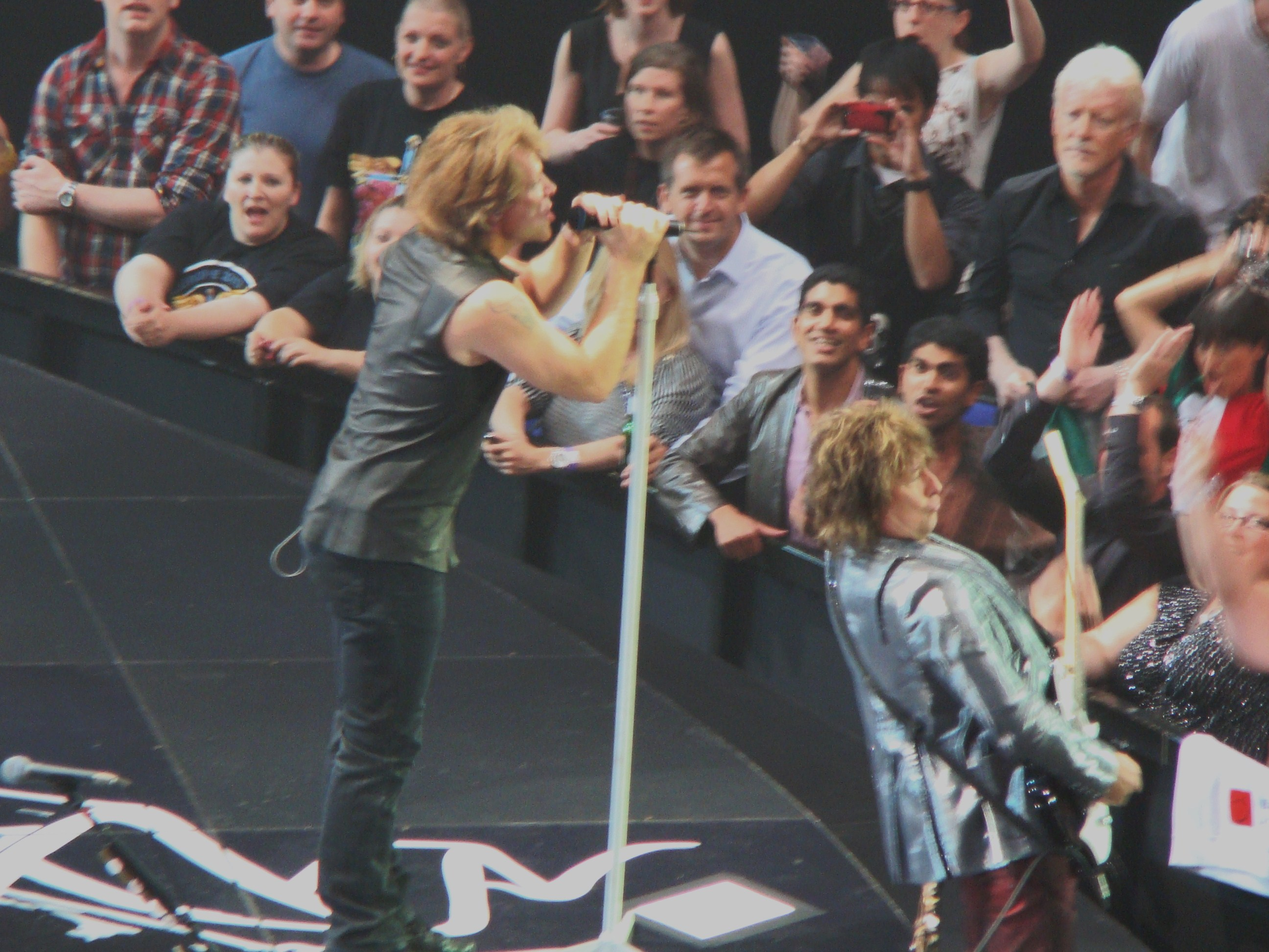 Jon Bon Jovi and Richie Sambora on stage during the Bon Jovi Circle Tour at the O2 Arena.